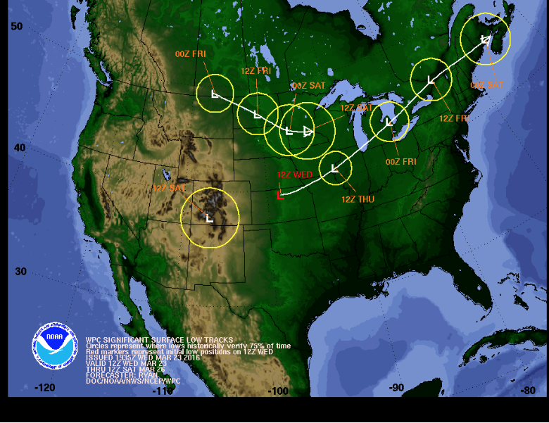 WPC forecast for the movement of the low pressure responsible for the winter storm on March 23.